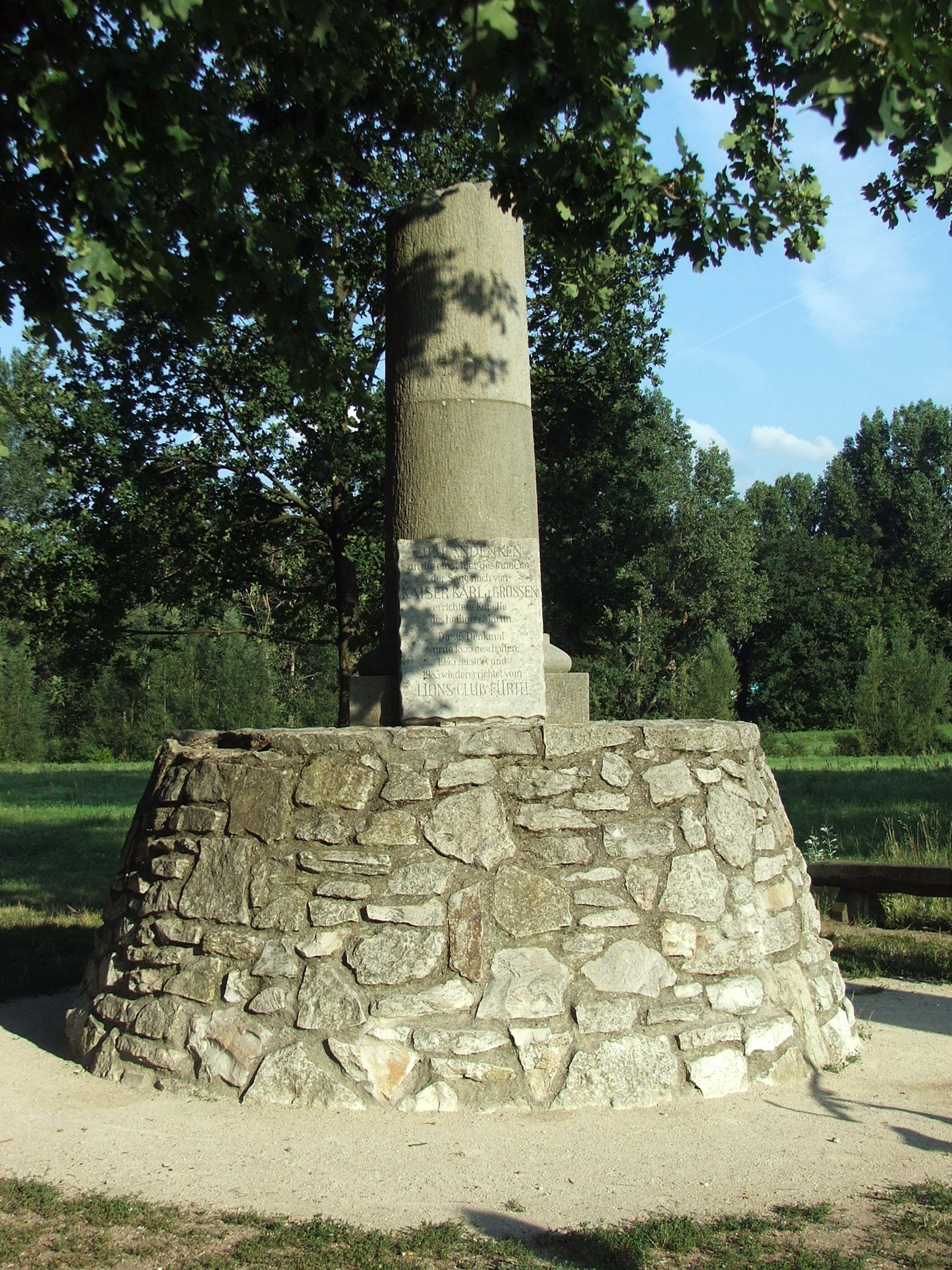 'Gedenkstein' at the place of the first settlement in Fürth/Germany